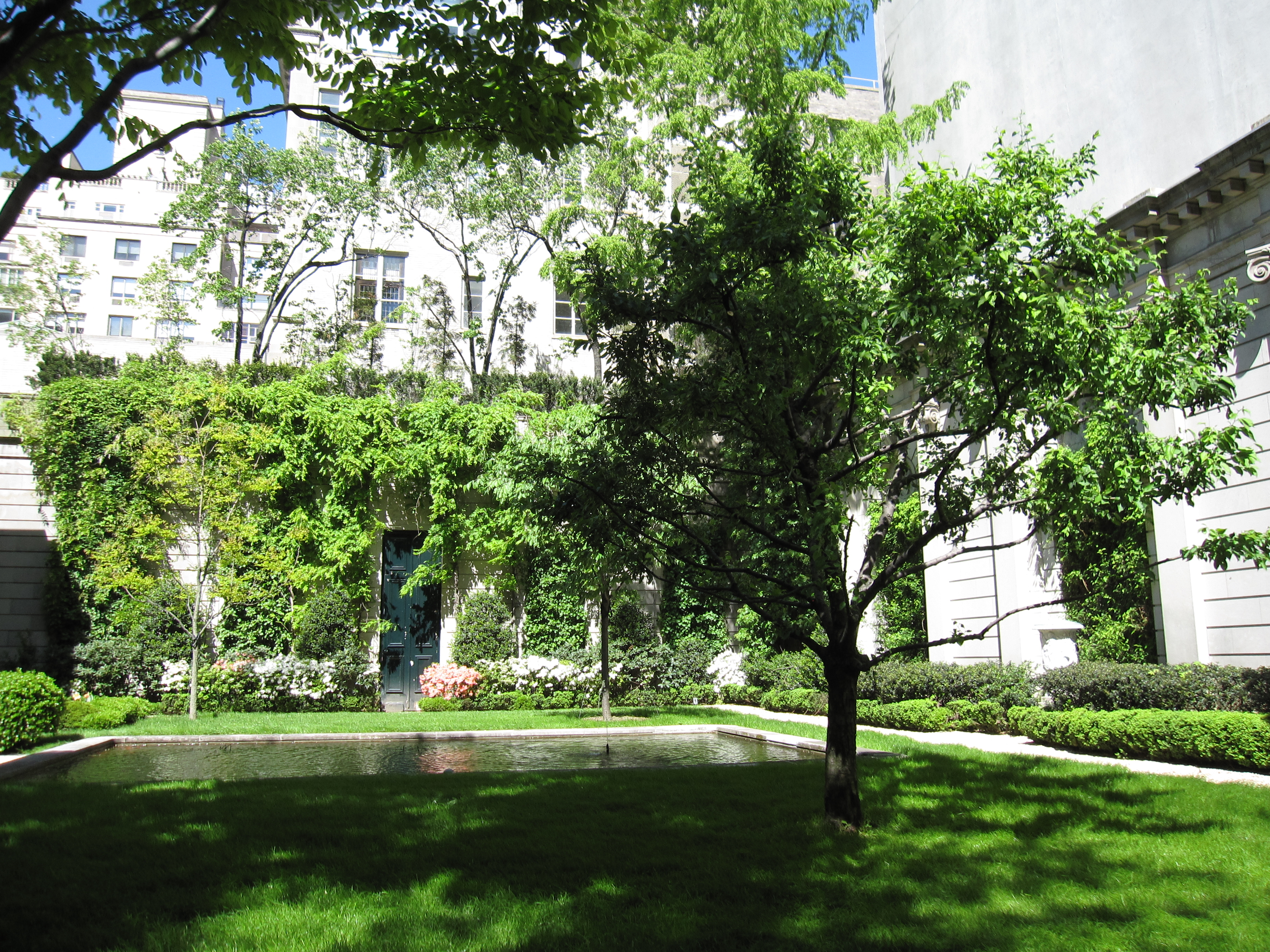 Henry C. Frick House on 5th Avenue in New York, today contains the Frick Collection.